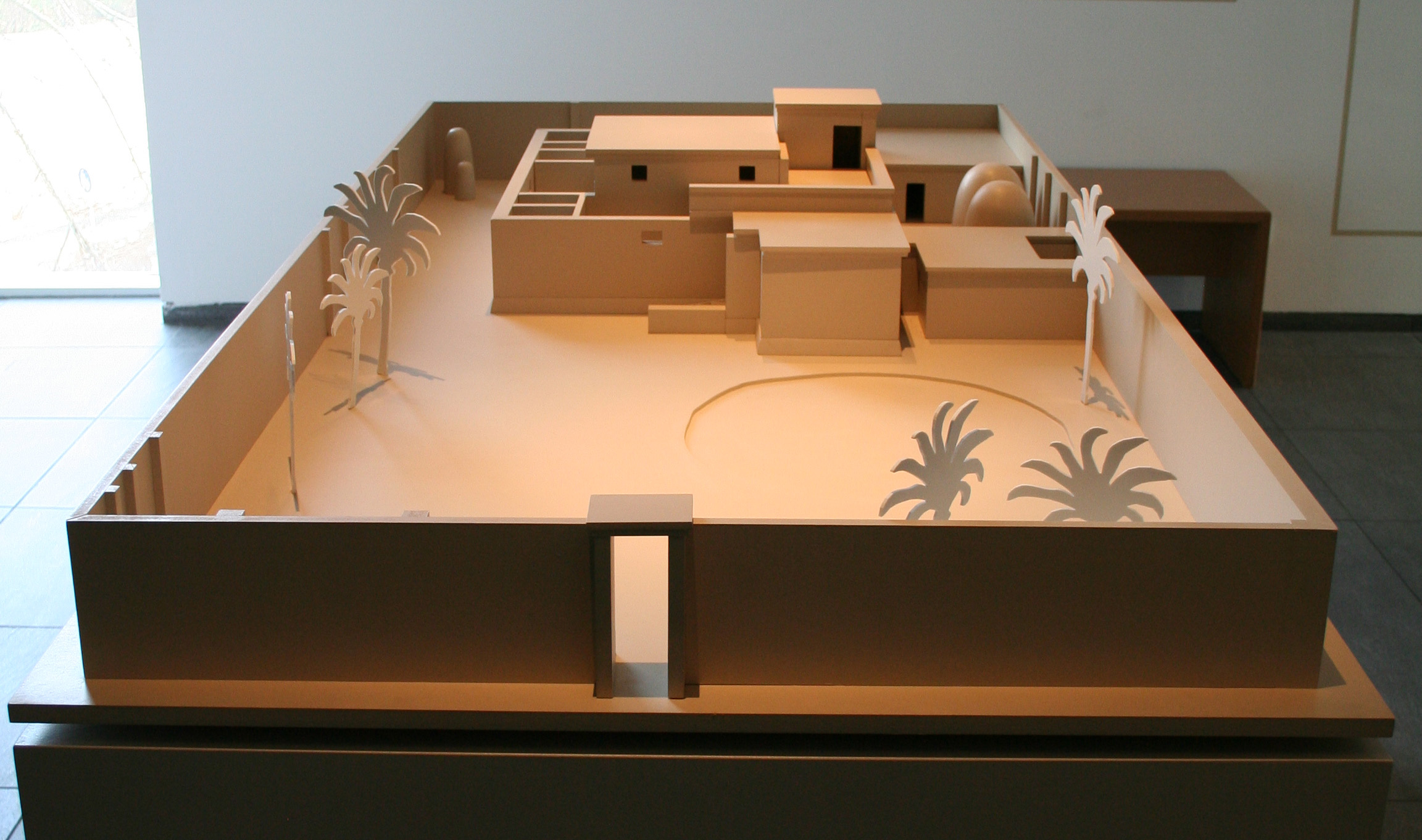 Roemer- und Pelizaeus-Museum, Hildesheim